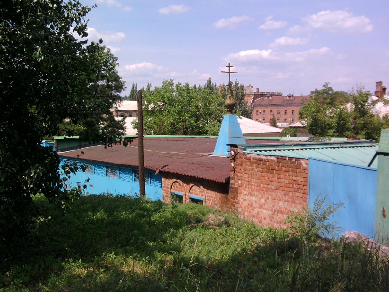 Kazan church in Luhansk, Ukraine